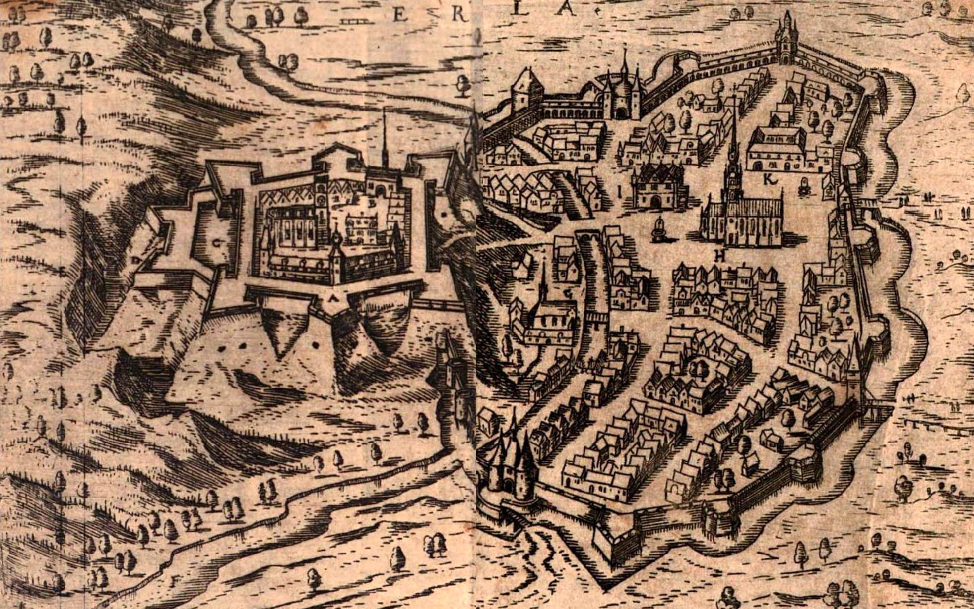 XVI.-ik században Illusztráció: Ungarische Chronica: Darinnen ordentliche, eigentliche und kurtze Beschreibung des Ober- unnd Nider-Ungern, sampt seinen Landtafeln und vieler furnehmer Festungen und Stedte Abriß